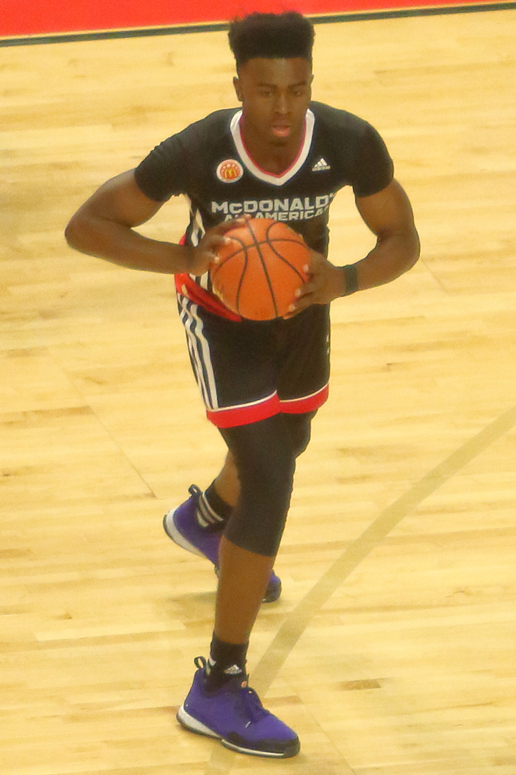 Jaylen Brown in the w:2015 McDonald's All-American Boys Game